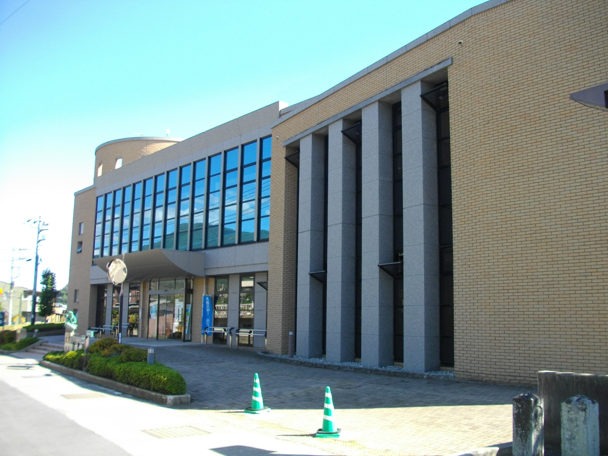 Otsuki City Library